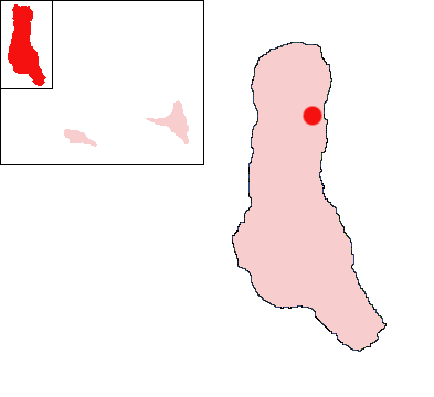 Mbéni, Grande Comore, Comoros Location Map; created with the GIMP. Made by User:Acntx.